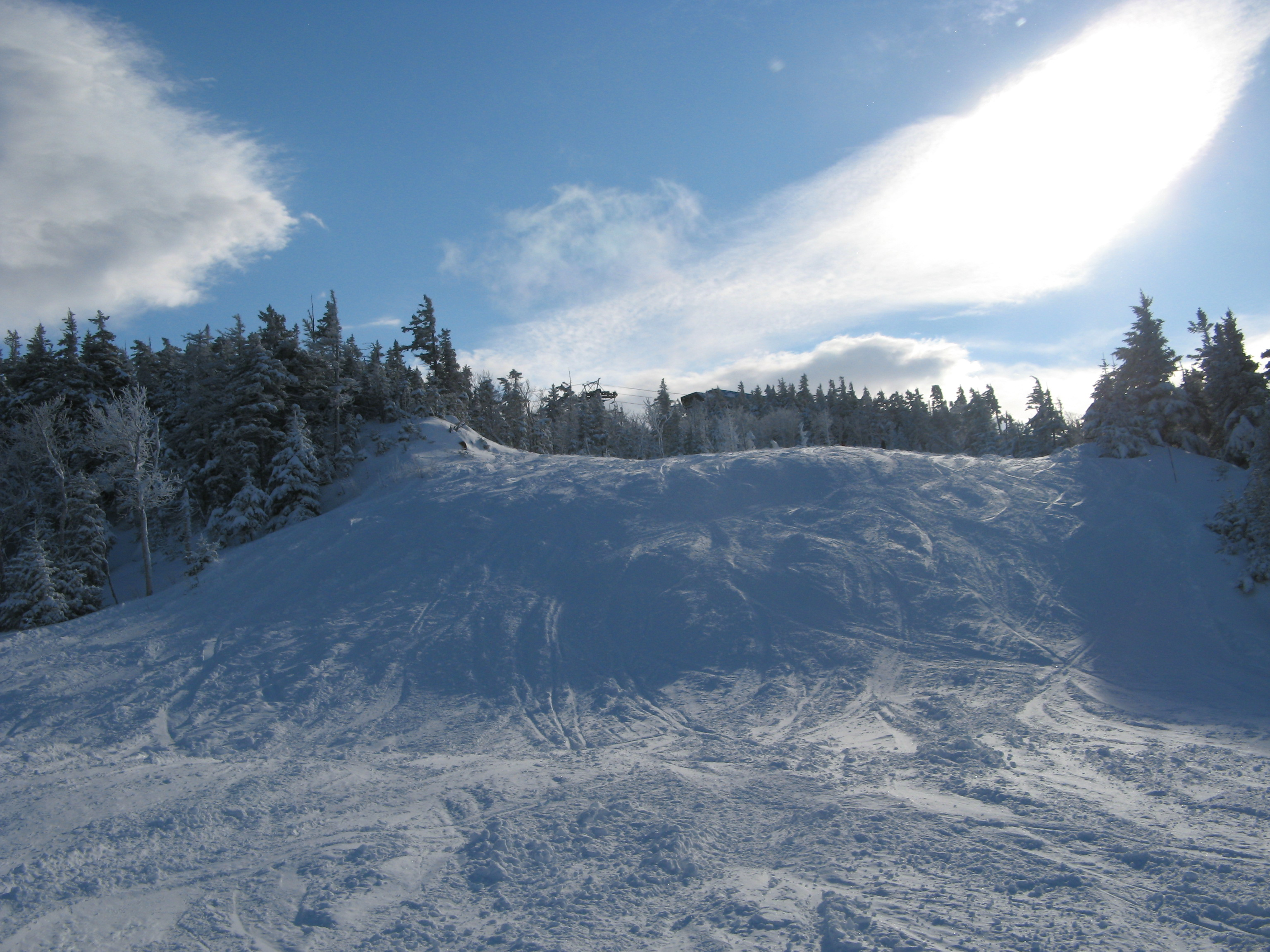 Sunday River, looking up from just below the top of Jordan, Jan. 2, 2008.